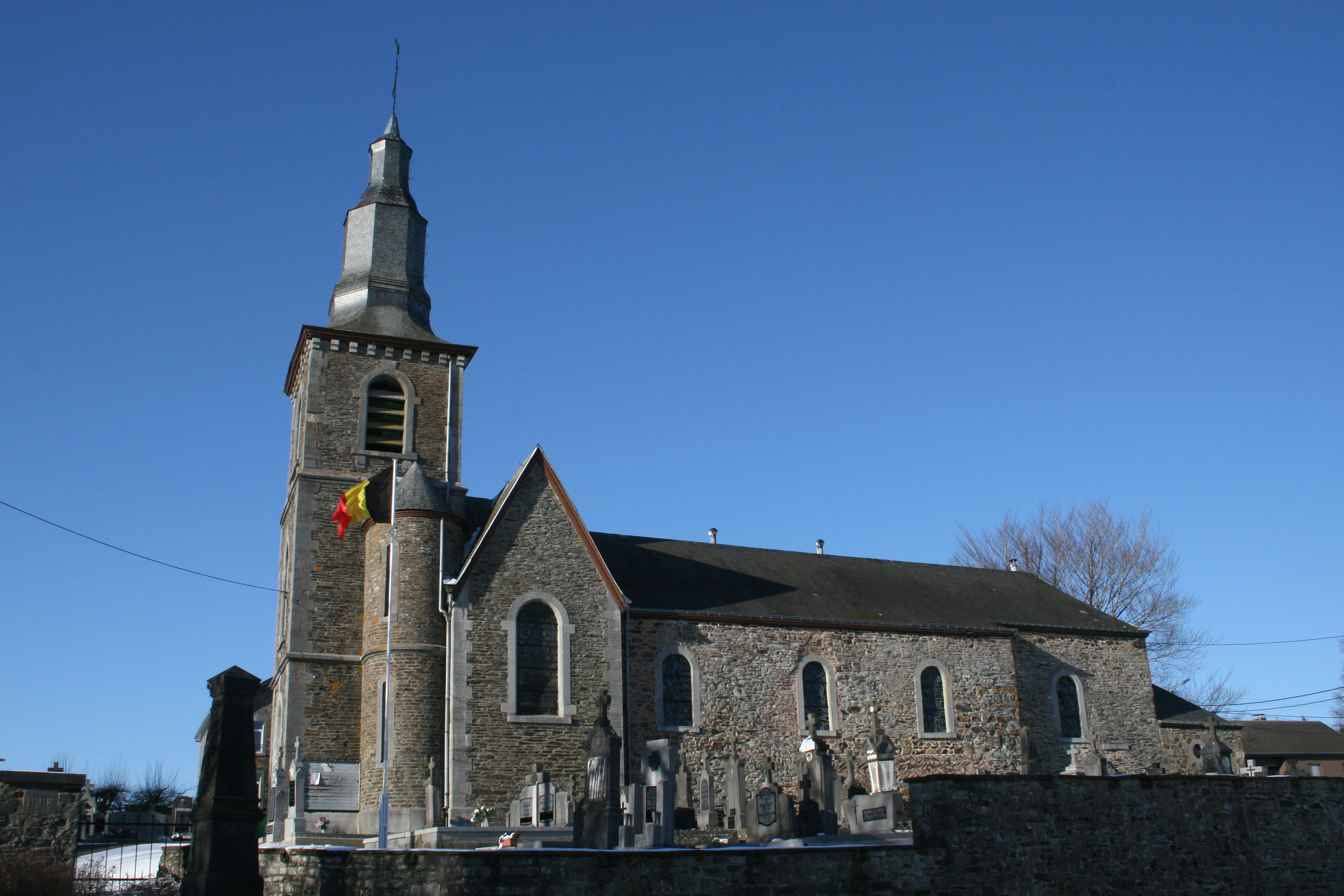 Erneuville (Belgium), the Saint Peter’s church (Romanesque origin, enlarged in the middle of the XIXth century).